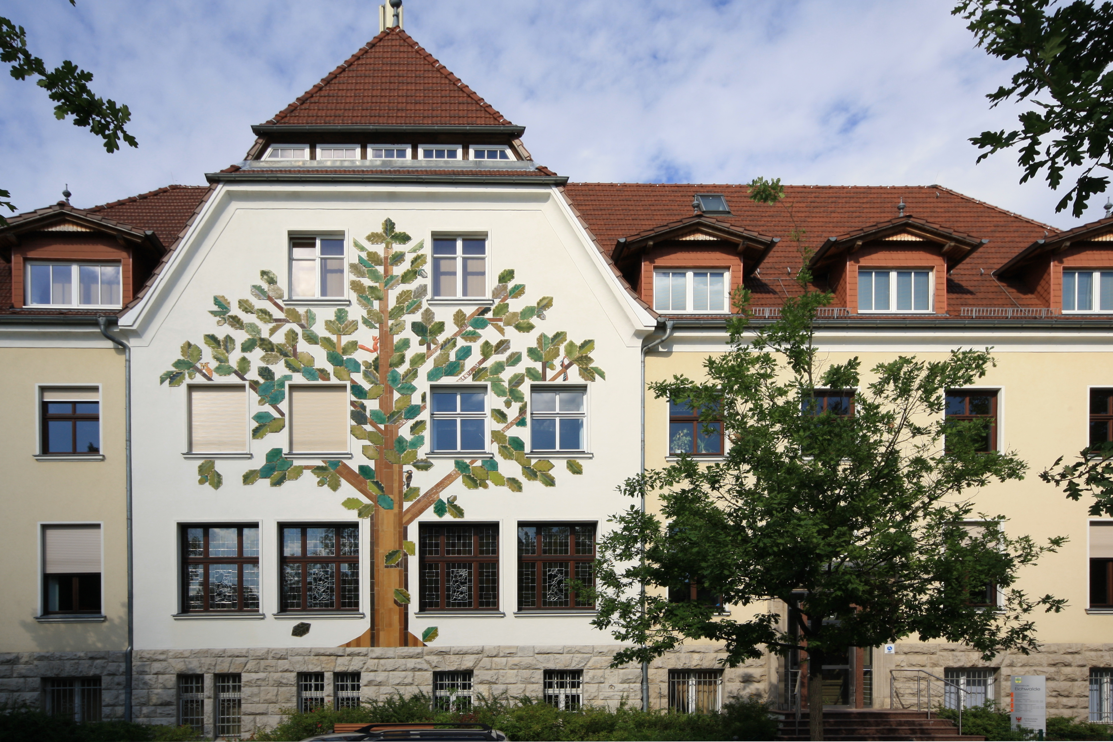 Eichwalde, town hall